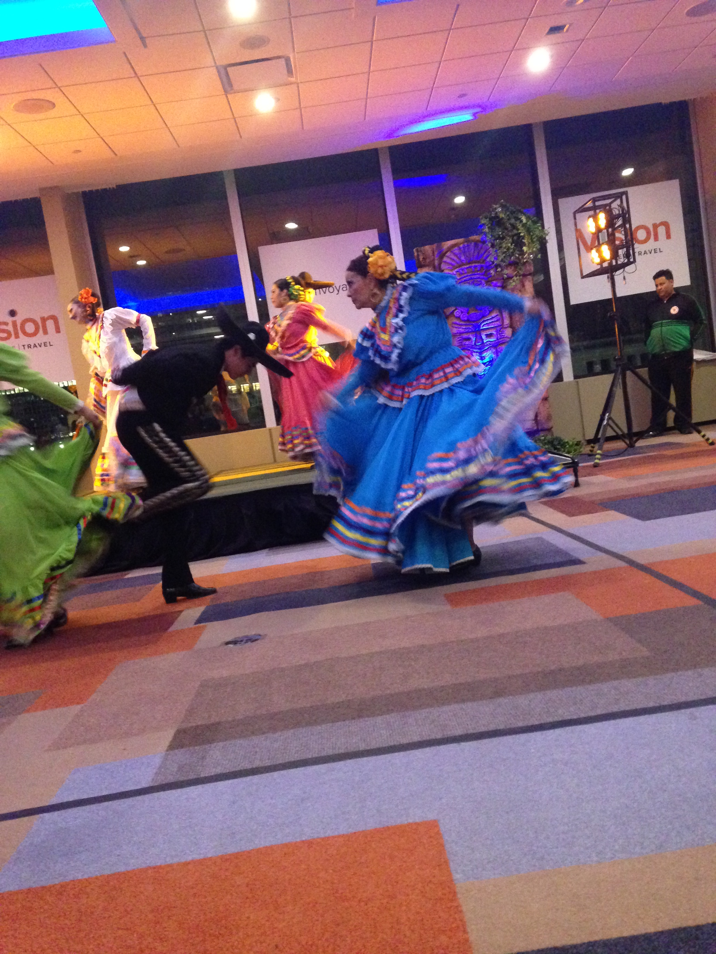 Folkloric Ballet Aztlan performing Jarabe Tapatio in Ottawa, Canada